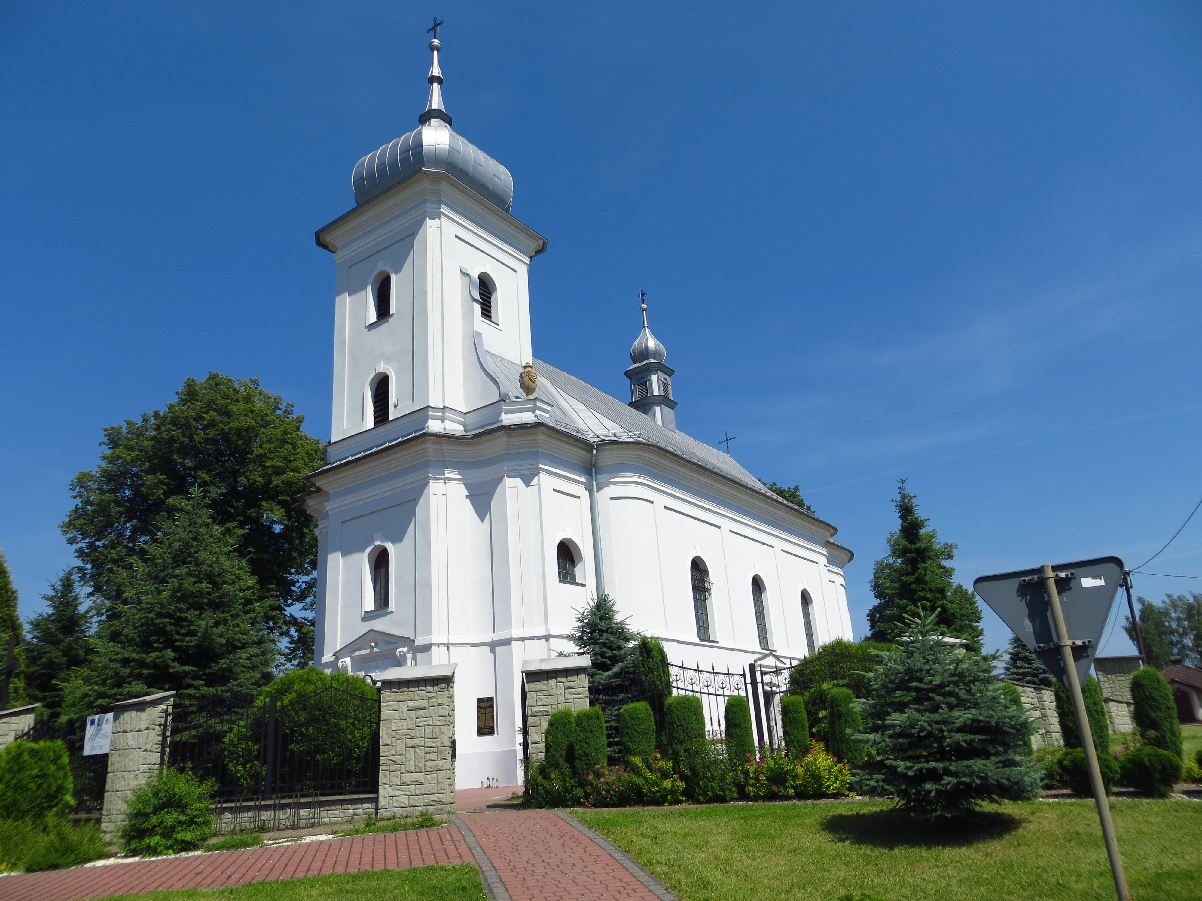 Przeciszów - Parish Church